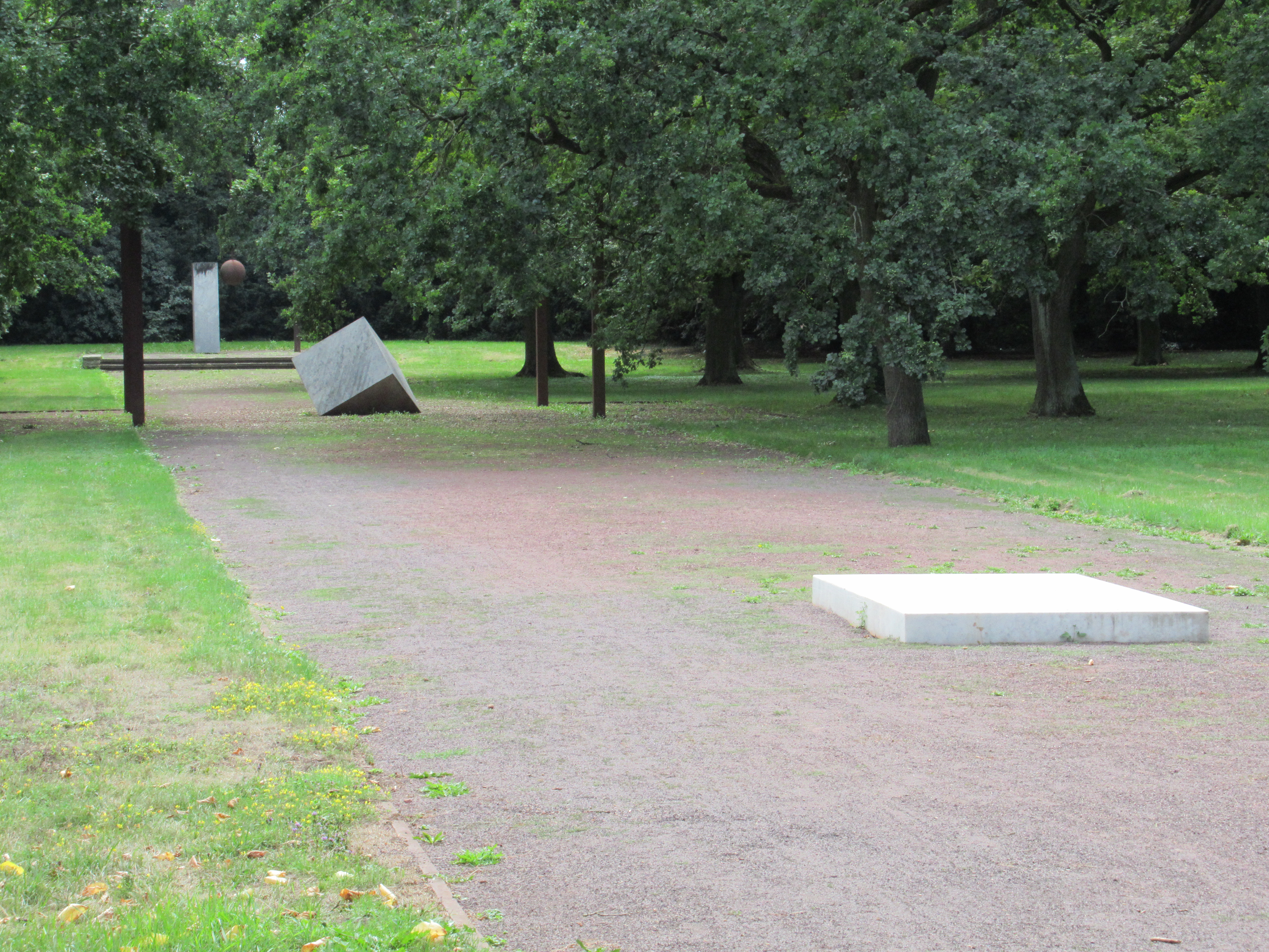 Magdeburg Monument for Bombing Victims in WW II